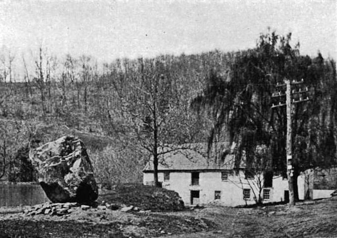 Photograph of Gulph Mill circa 1922